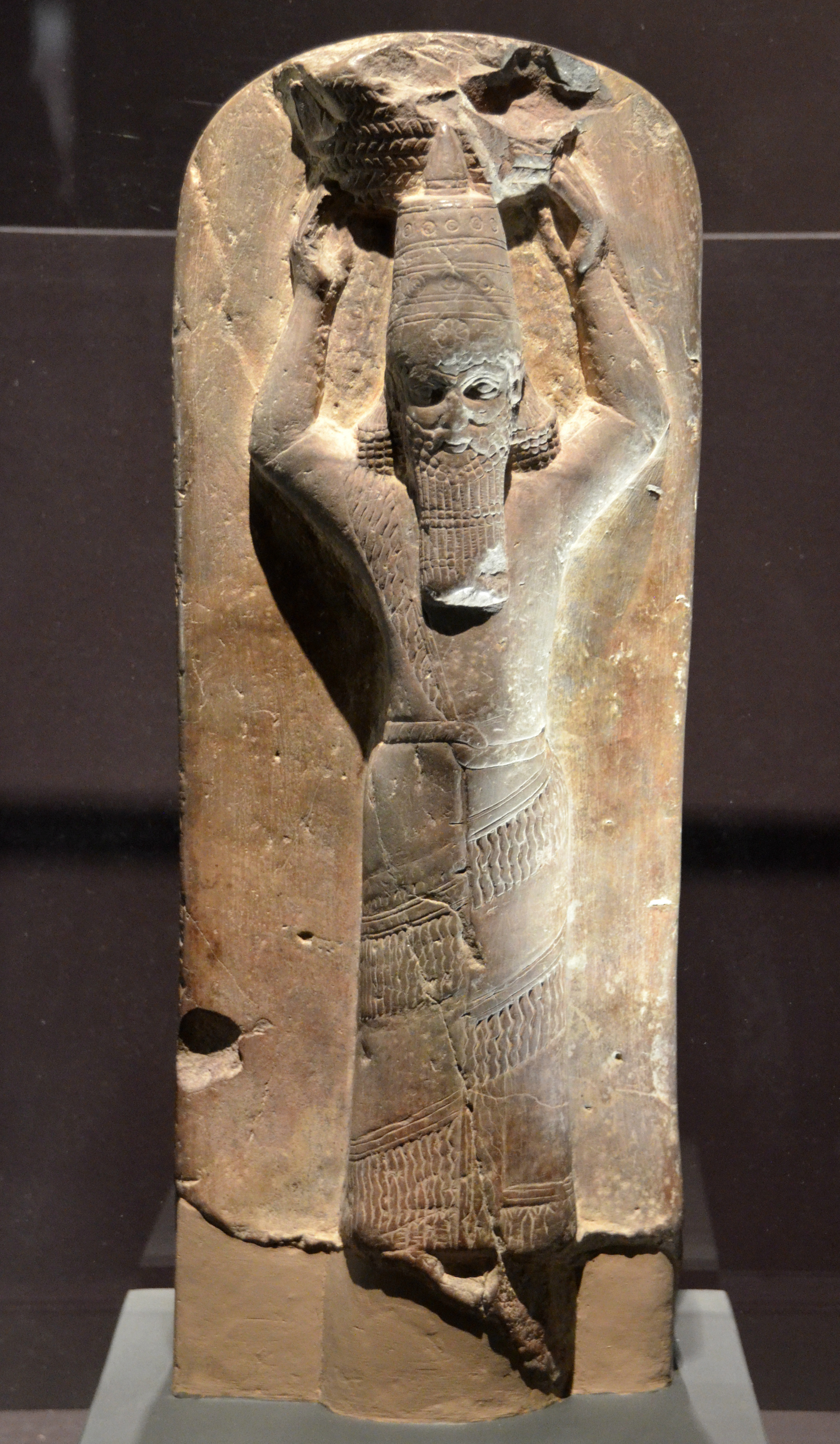 Exhibition: I am Ashurbanipal king of the world, king of Assyria, British Museum